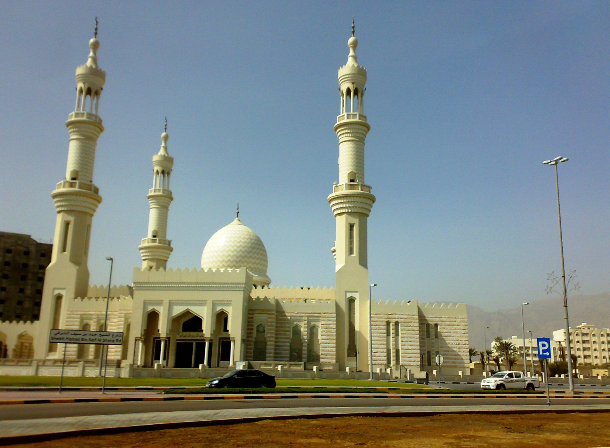 The city of Dibba, in northernmost Fujeirah emiorat (UAE), on the border towards Oman in the north.